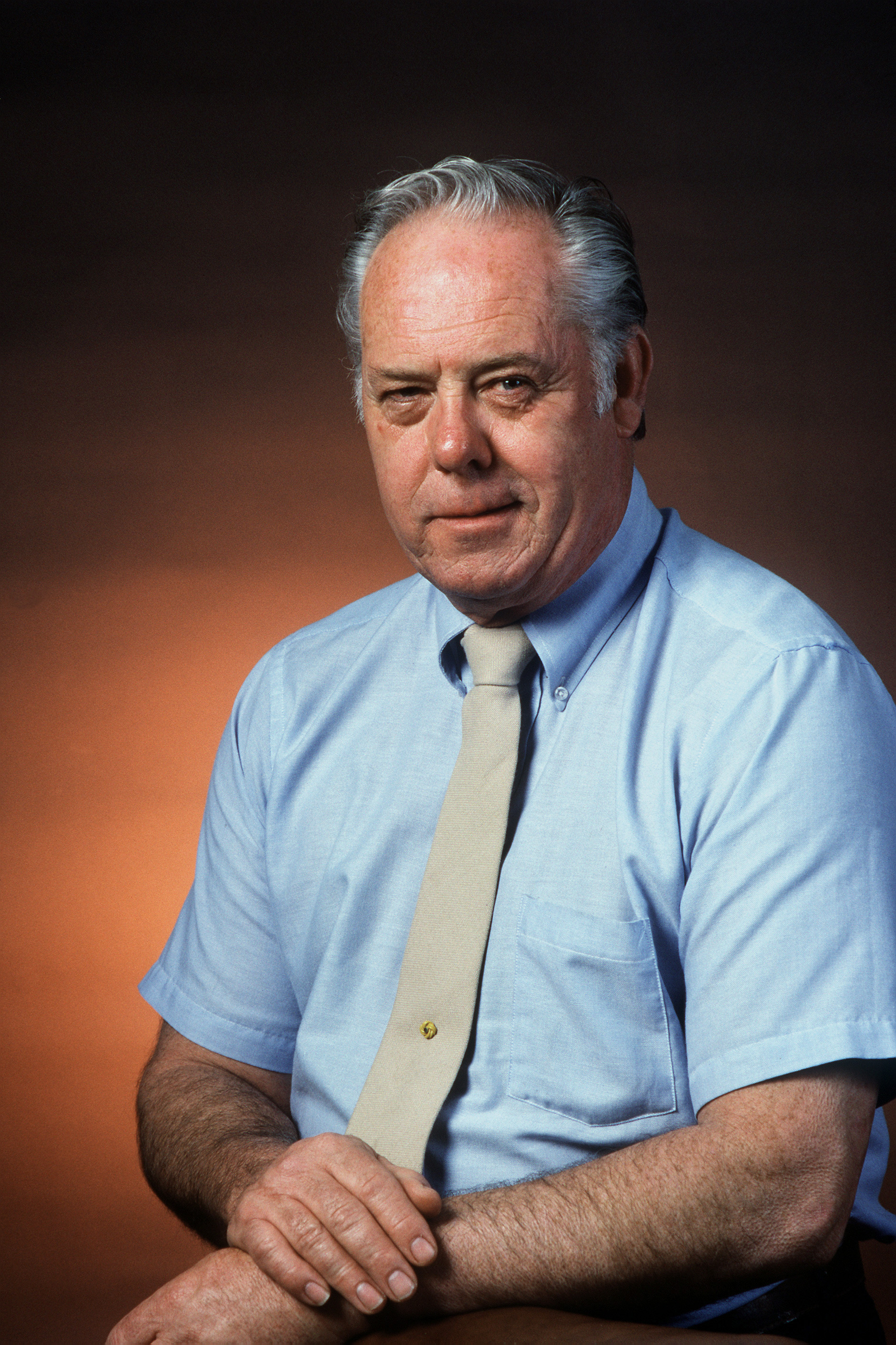 Lieutenant Colonel Gerald O. Young, United States Air Force (Retired), Medal of Honor recipient